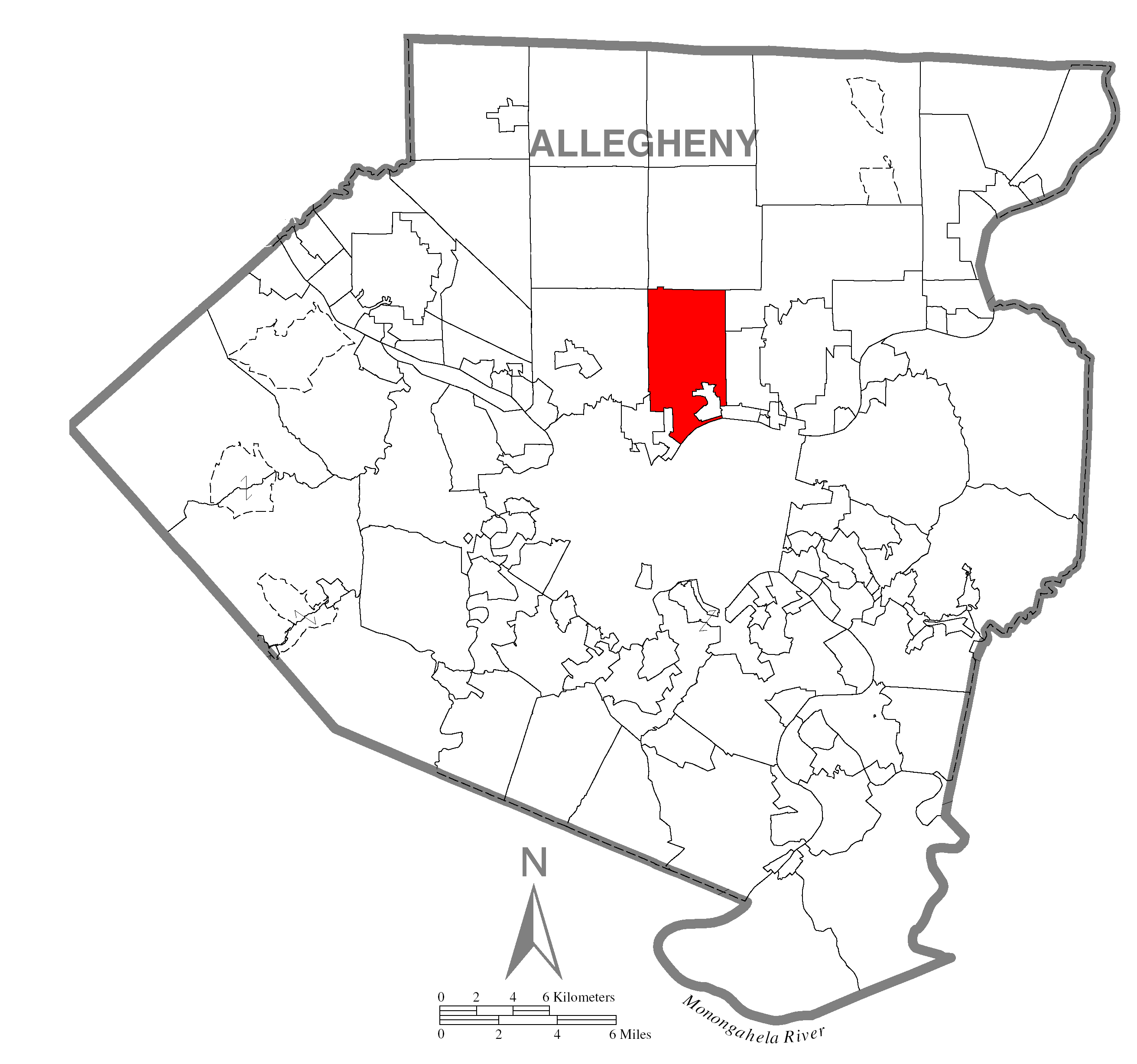 A map of Allegheny County showing Shaler Township, Pennsylvania (alternate) highlighted on the map.